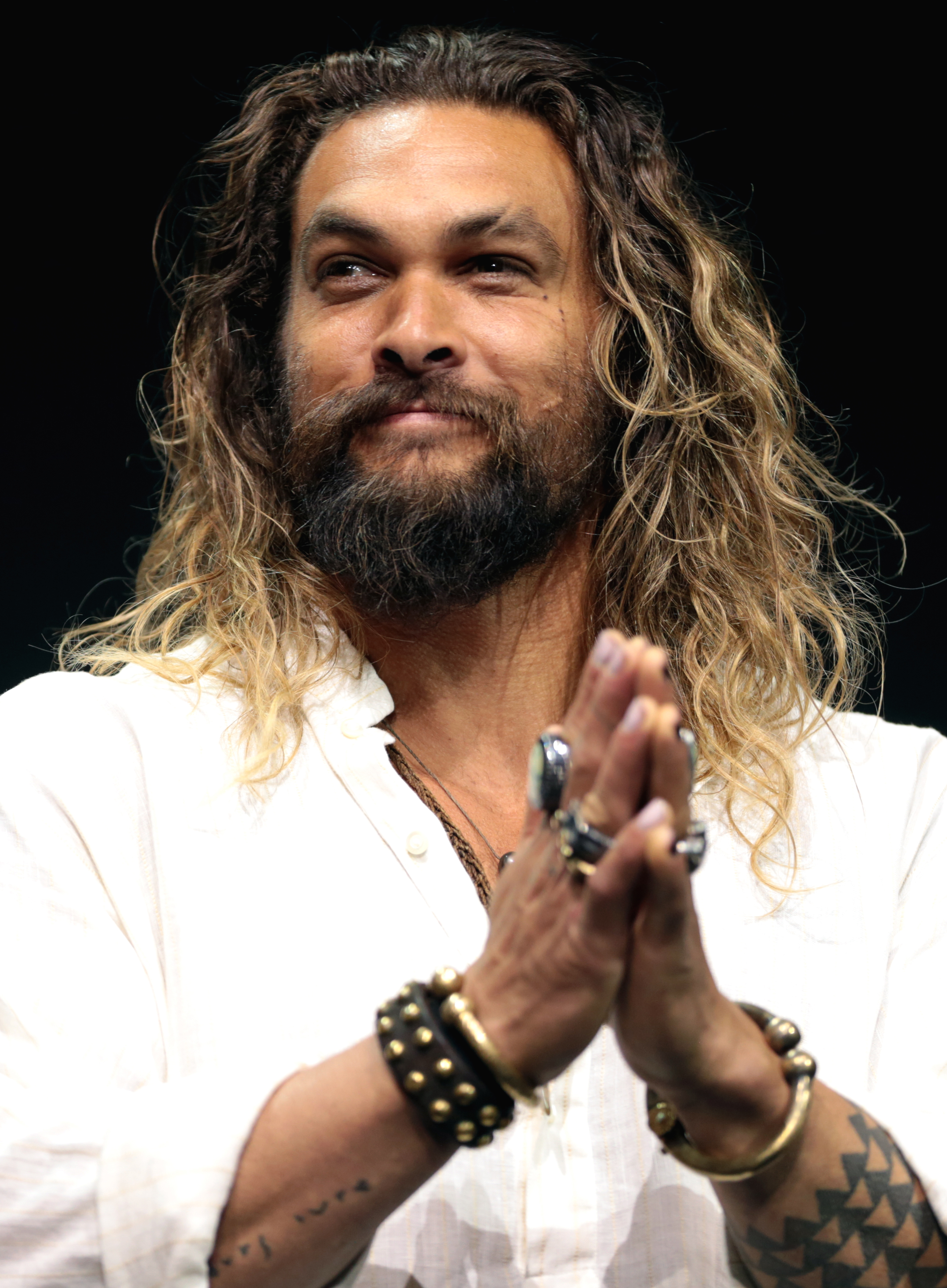 Jason Momoa speaking at the 2017 San Diego Comic-Con International in San Diego, California.